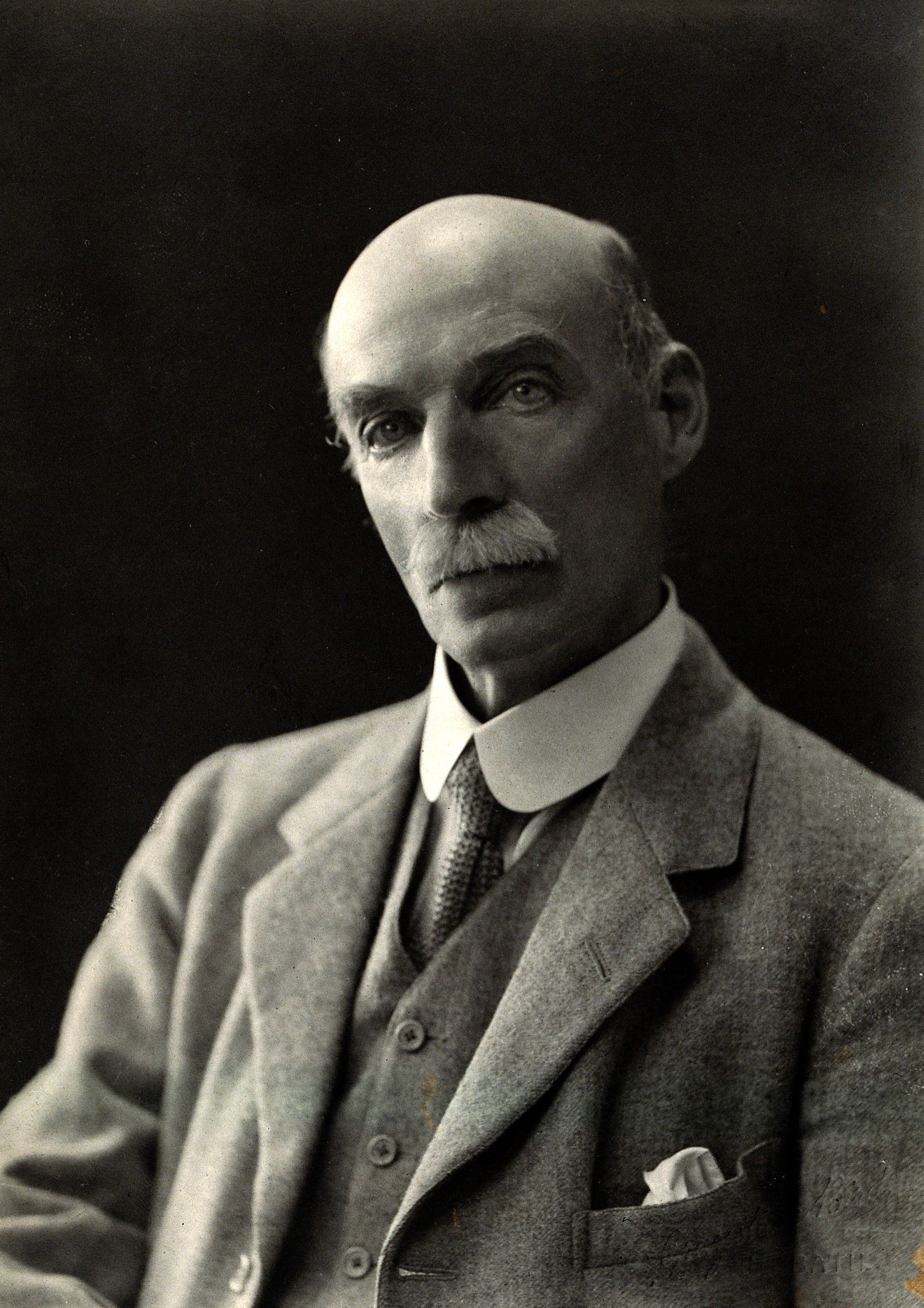 Sir Thomas Morison Legge. Photograph by Graystone Bird. Iconographic Collections Keywords: portrait photographs